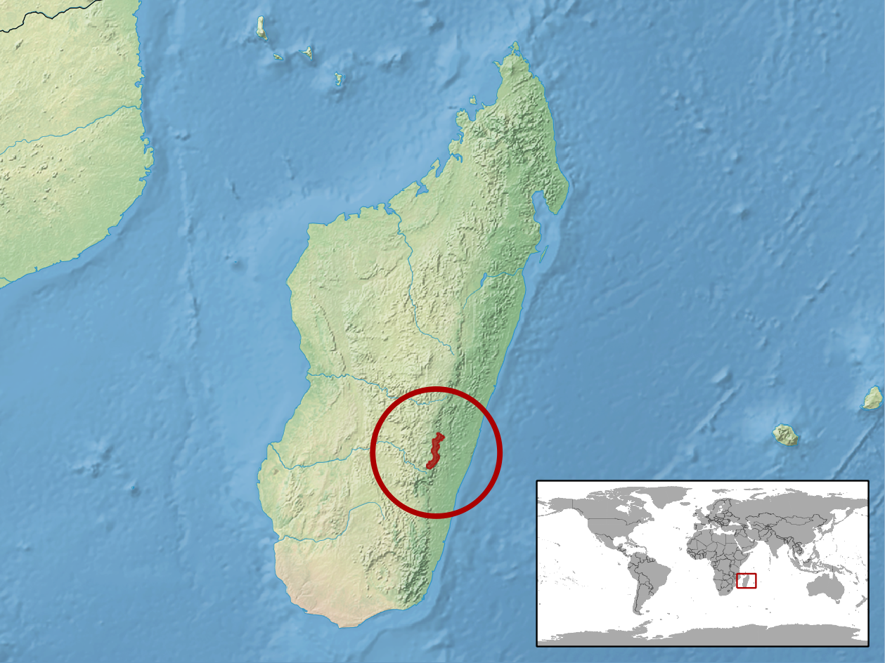 geographic distribution of Calumma glawi (Native: Madagascar)